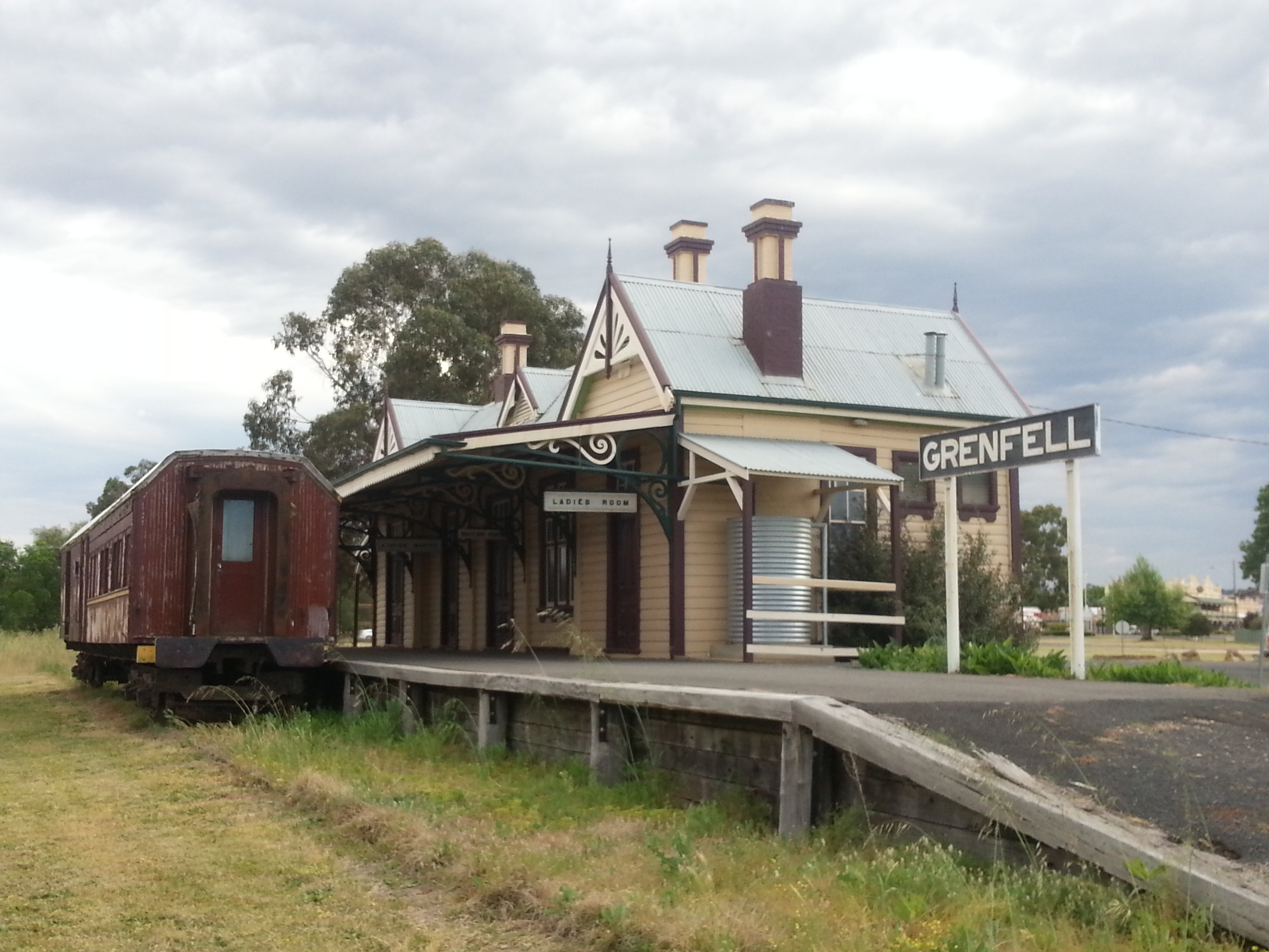 Grenfell Railway Station from track side. Grenfell is a small town in the Central West of New South Wales. The station was opened in 1901